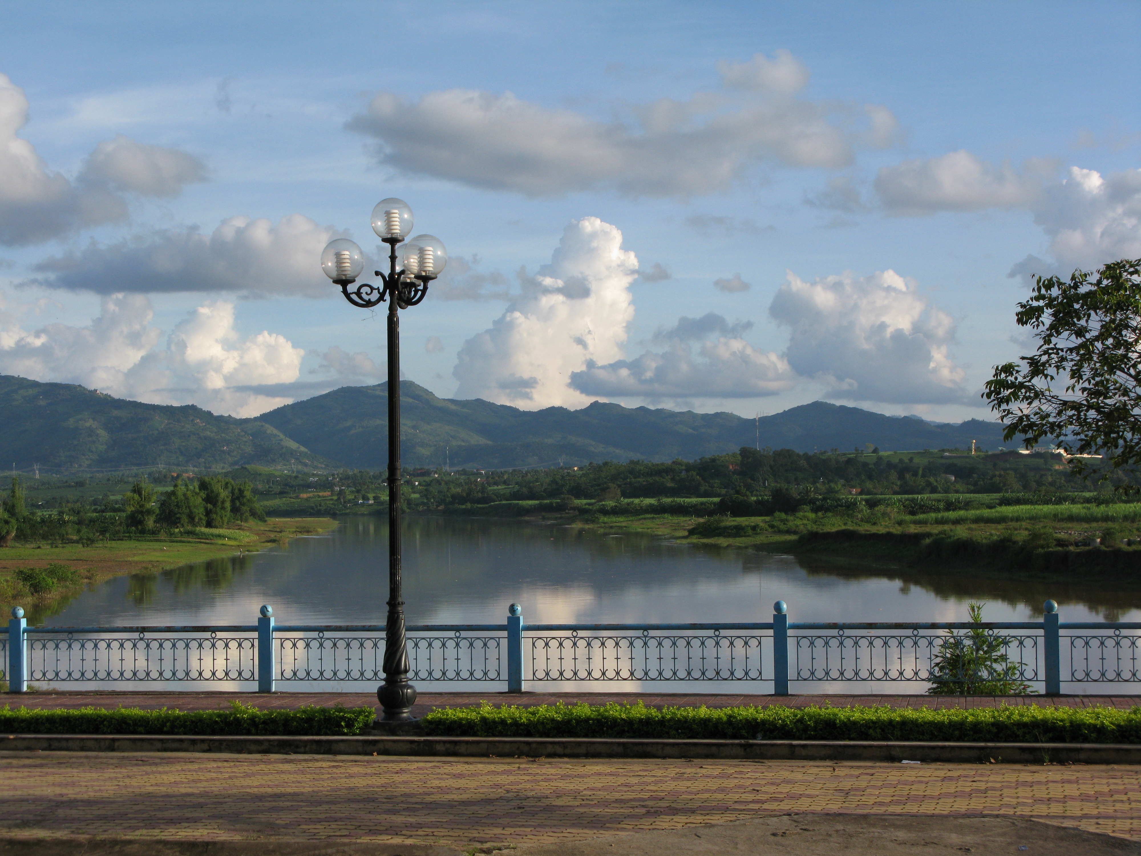 Dak Bla river in Kon Tum City, Kon Tum Province, Vietnam